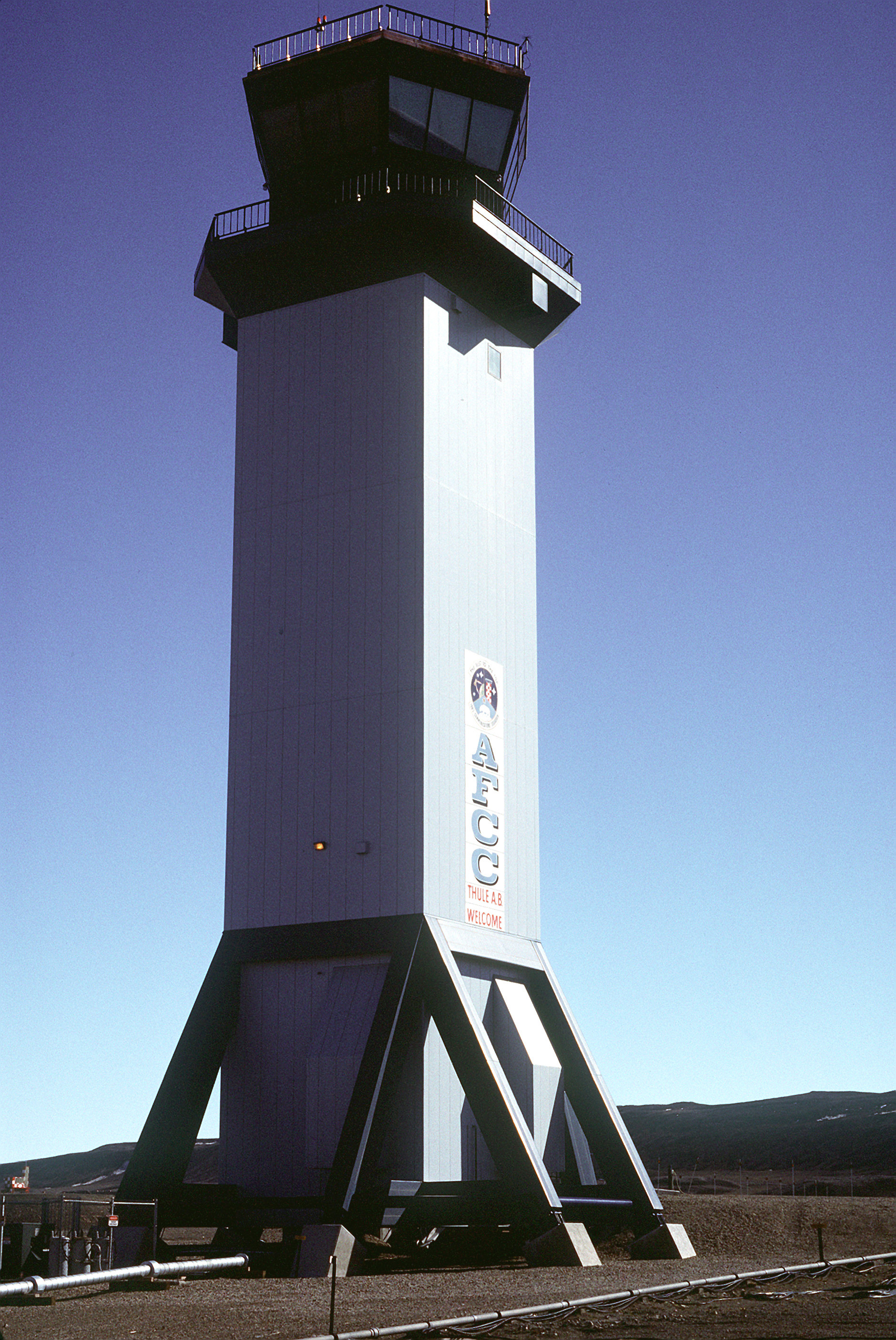 A view of the new control tower at Thule Air Base.